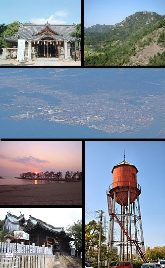 Takasago montage